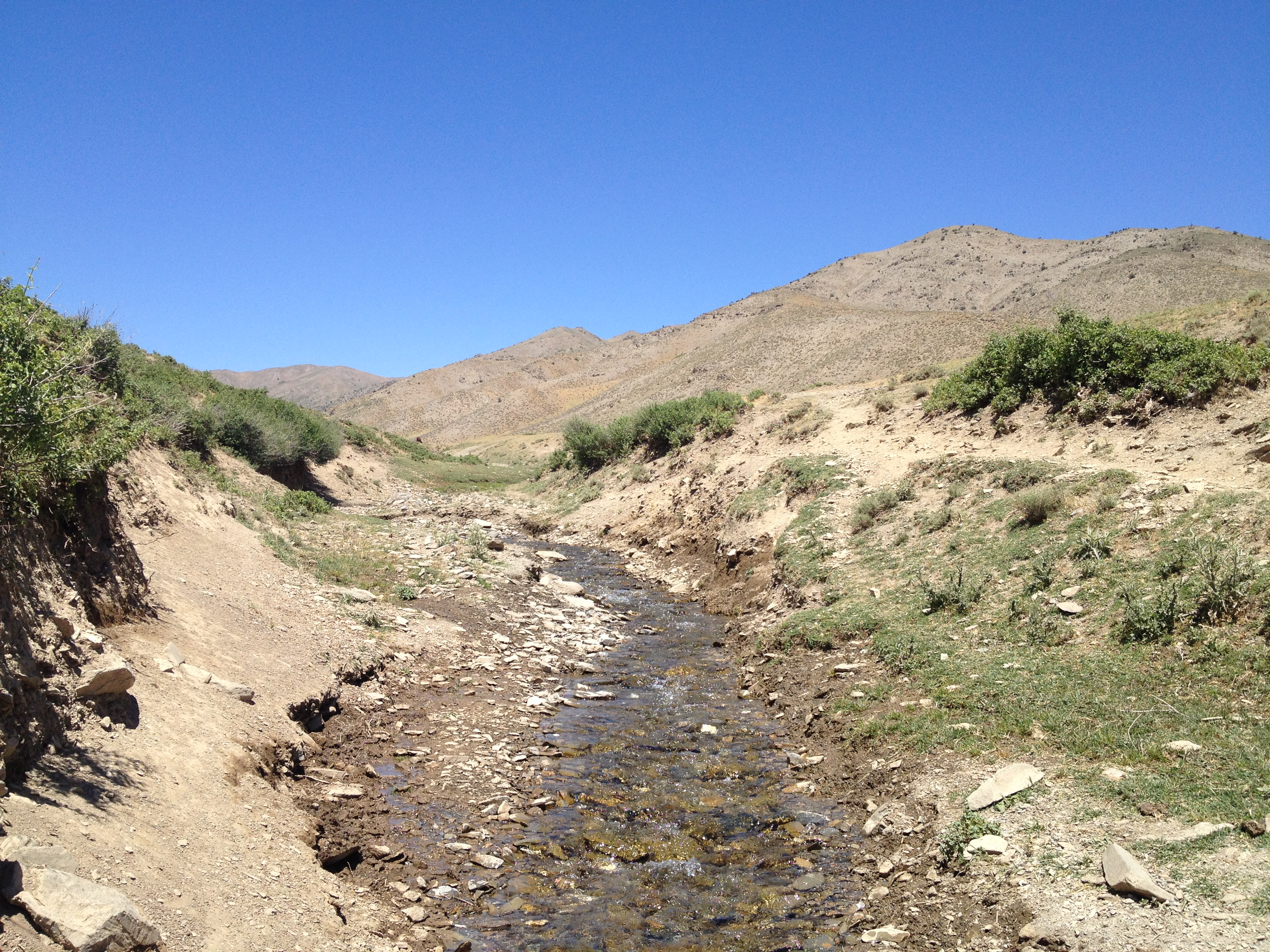 Gobduntau mountains, valley of Ingichka river